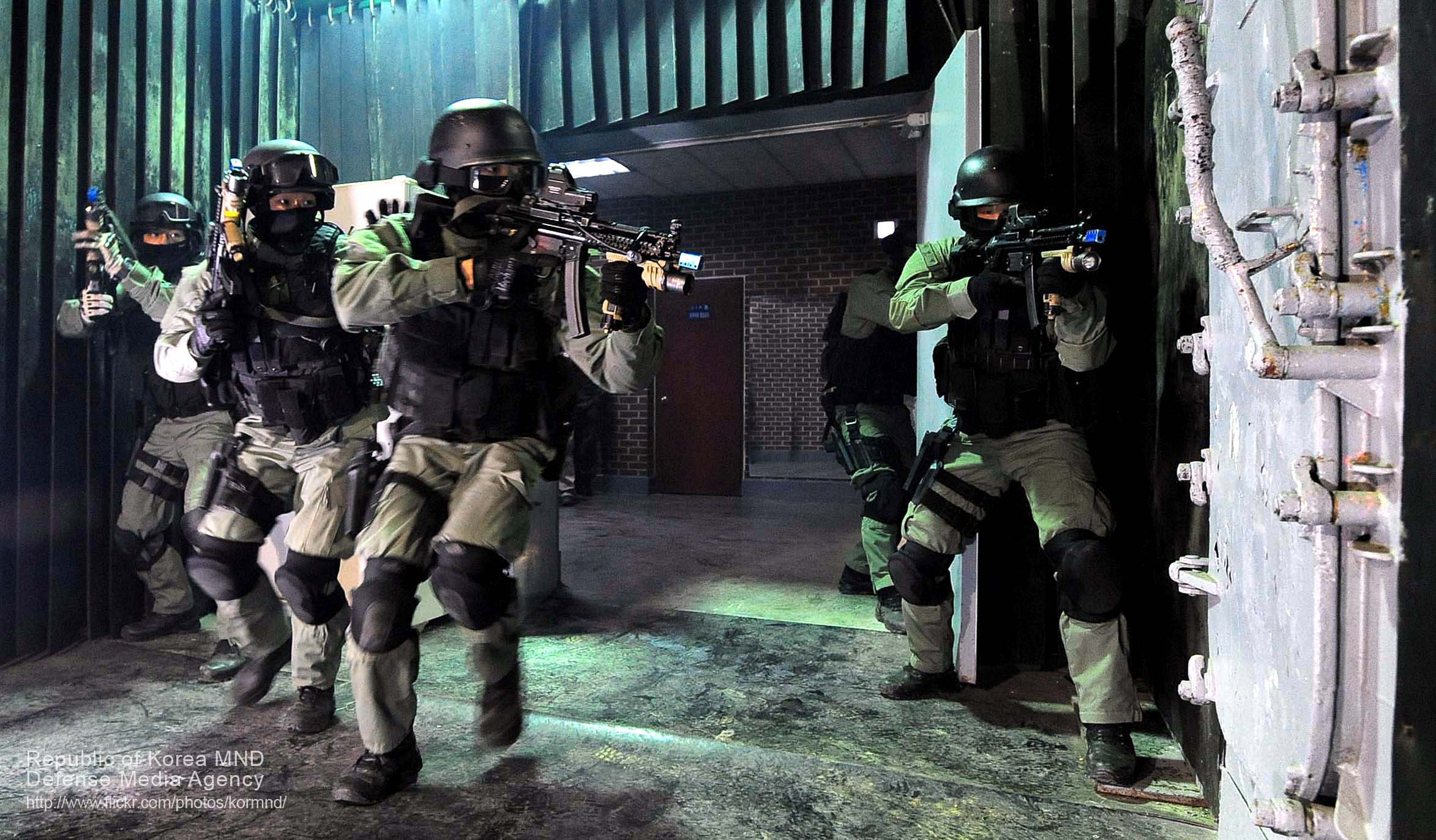 2013.1.18. 해군 특수전전단 Rep. of Korea Navy Underwater Demolition Team